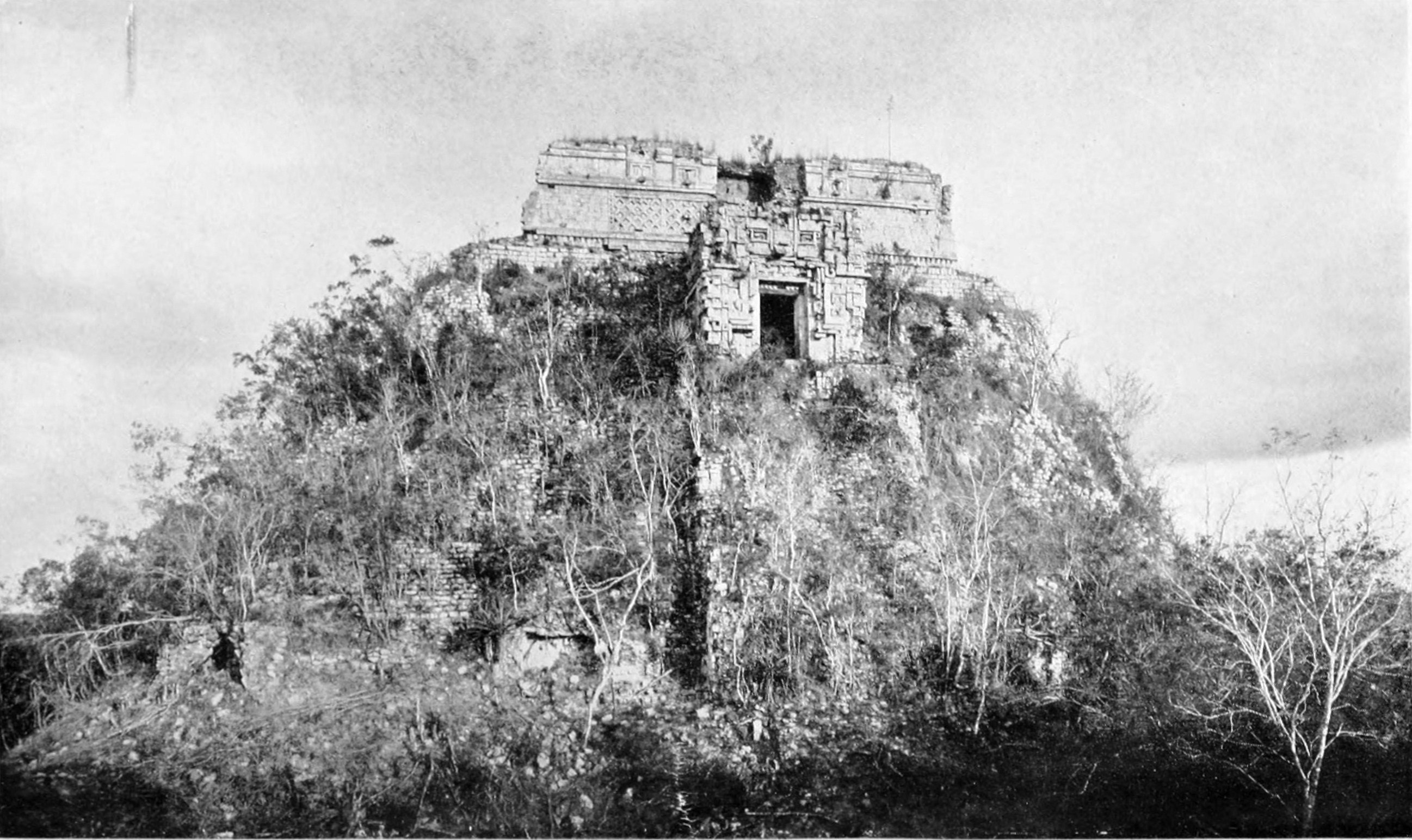 pg 10 of The American Indian.